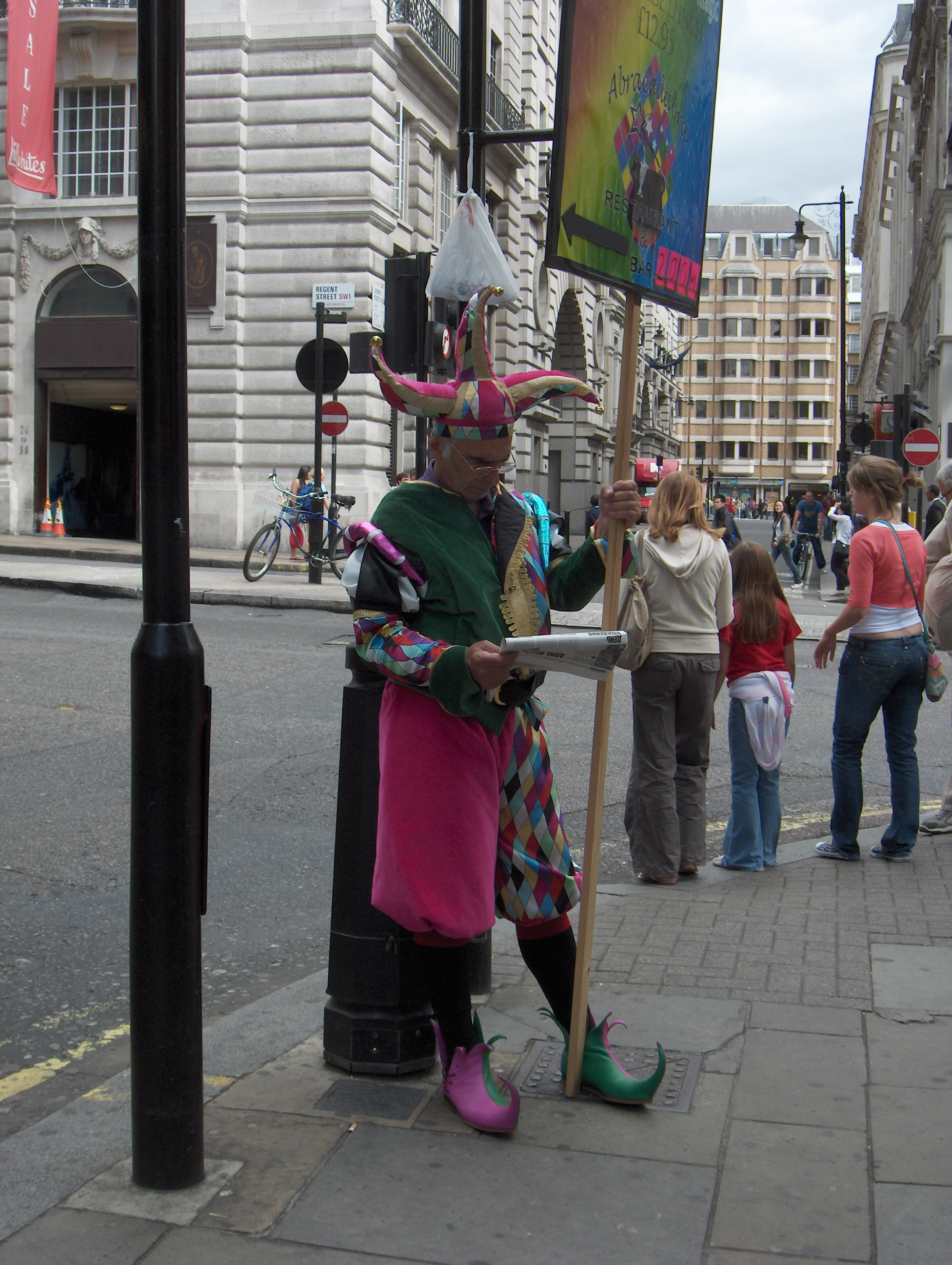 Human directional, reading news of the transatlantic aircraft plot in 2006, in a street of London.